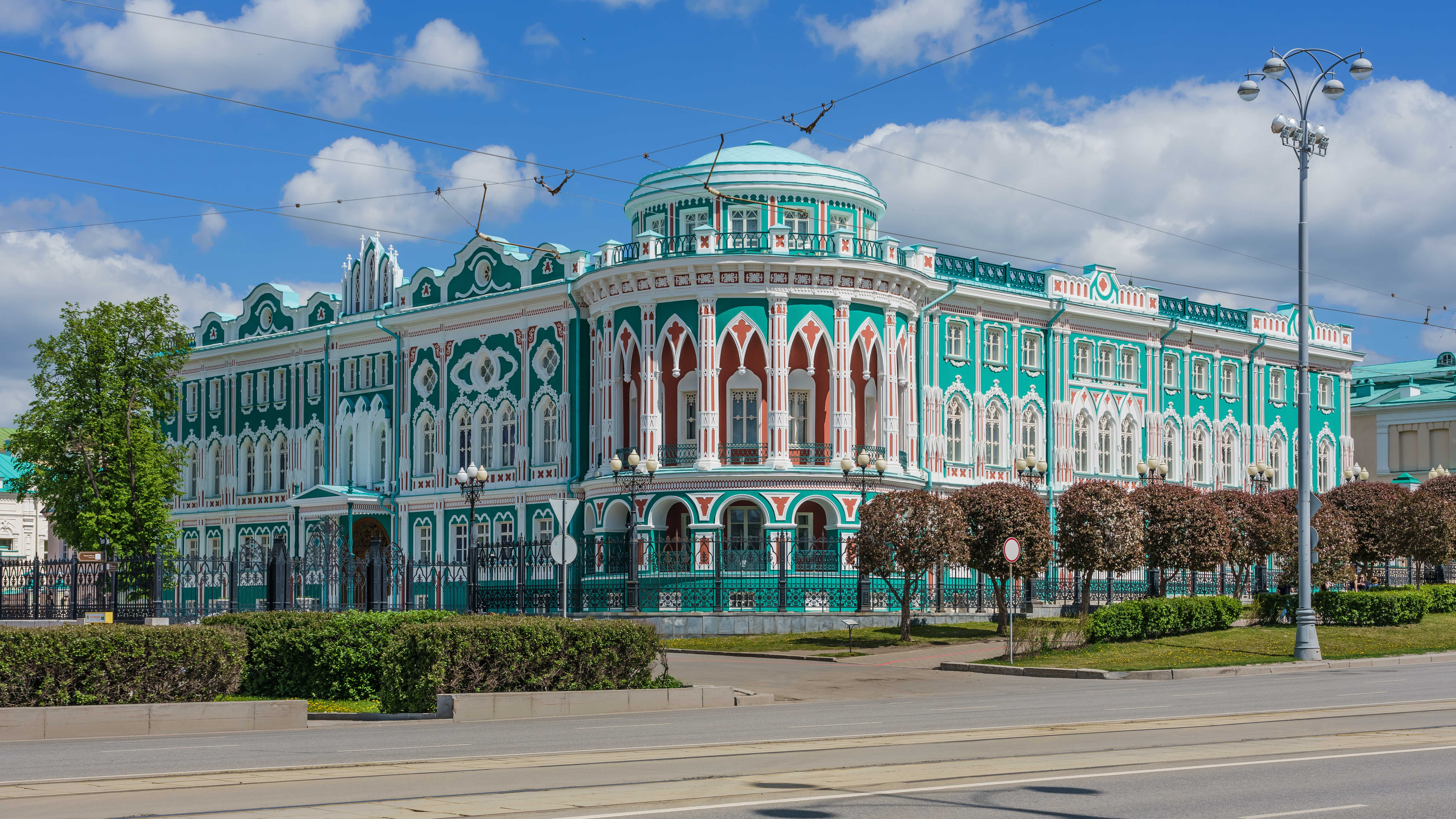 Building at Lenina Avenue 35 (Sevastianov Manor) in Ekaterinburg, Russia